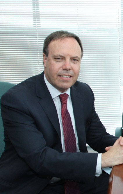 Nigel Dodds, DUP